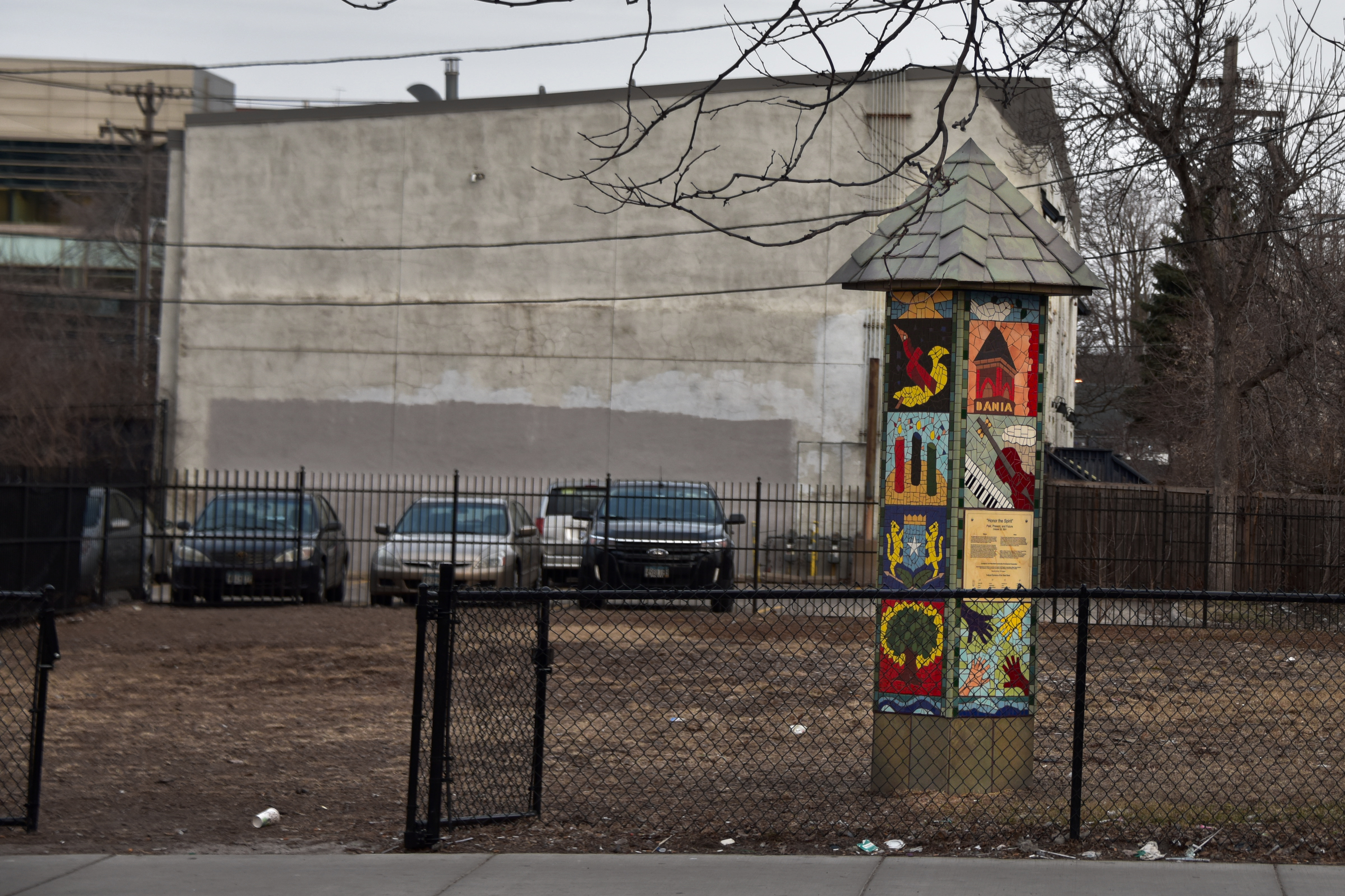 A memorial pillar erected in the vacant lot in Cedar-Riverside, Minneapolis, that was the site of the Dania Hall cultural center before its destruction by fire in 2000.